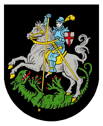 Coat of arms of Katzenbach (Donnersbergkreis)